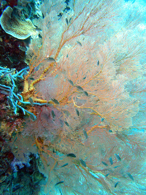 Knotted fan coral (Melithaea ochracea), Pulau Tioman, West Malaysia